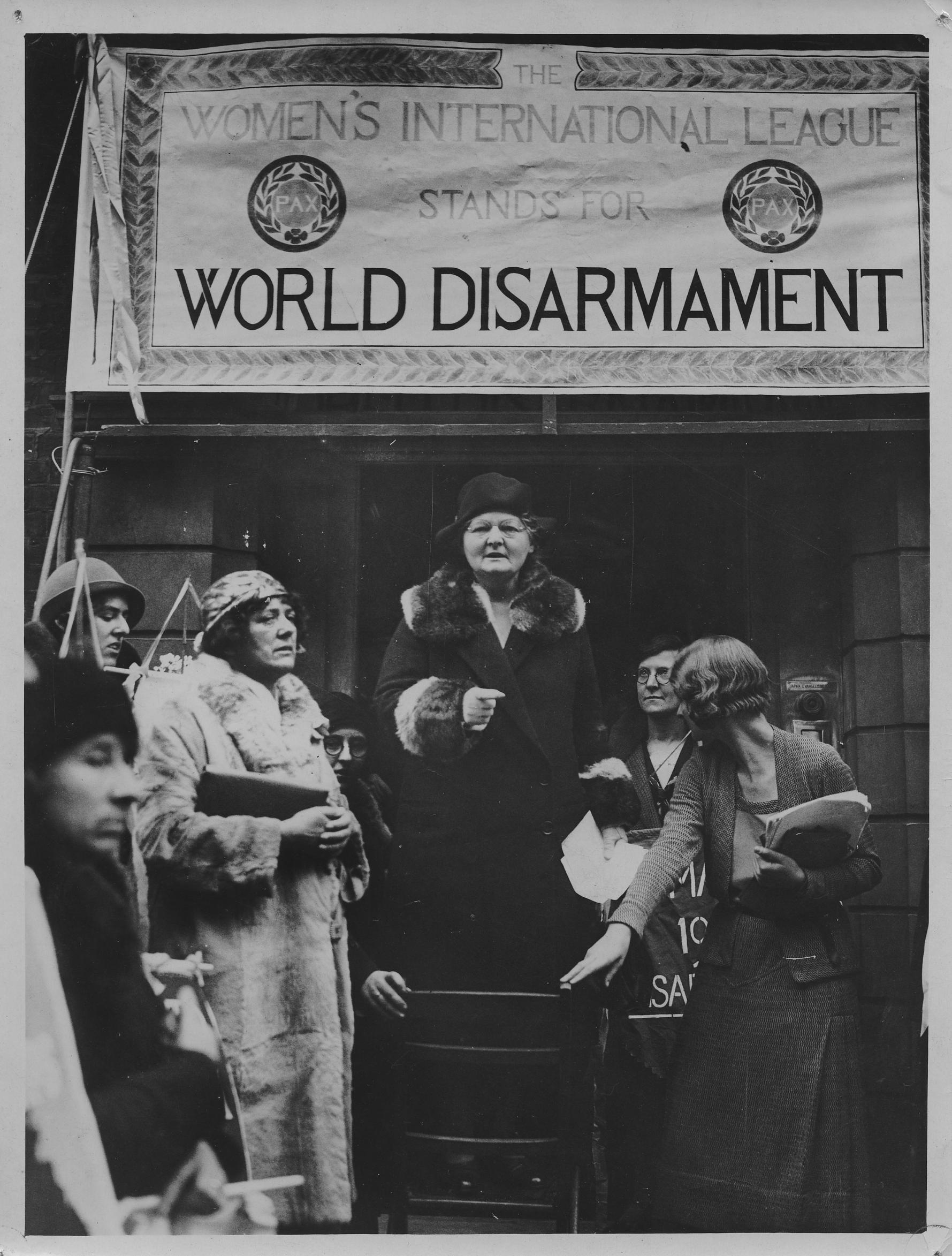 Margaret Bondfield, Britain’s first female cabinet minister and member of WILPF. In this image she is giving a speech to mark peace declaration forms containing 2.2 million signatures collected by WILPF being sent to the world disarmament conference in Geneva in 1932.